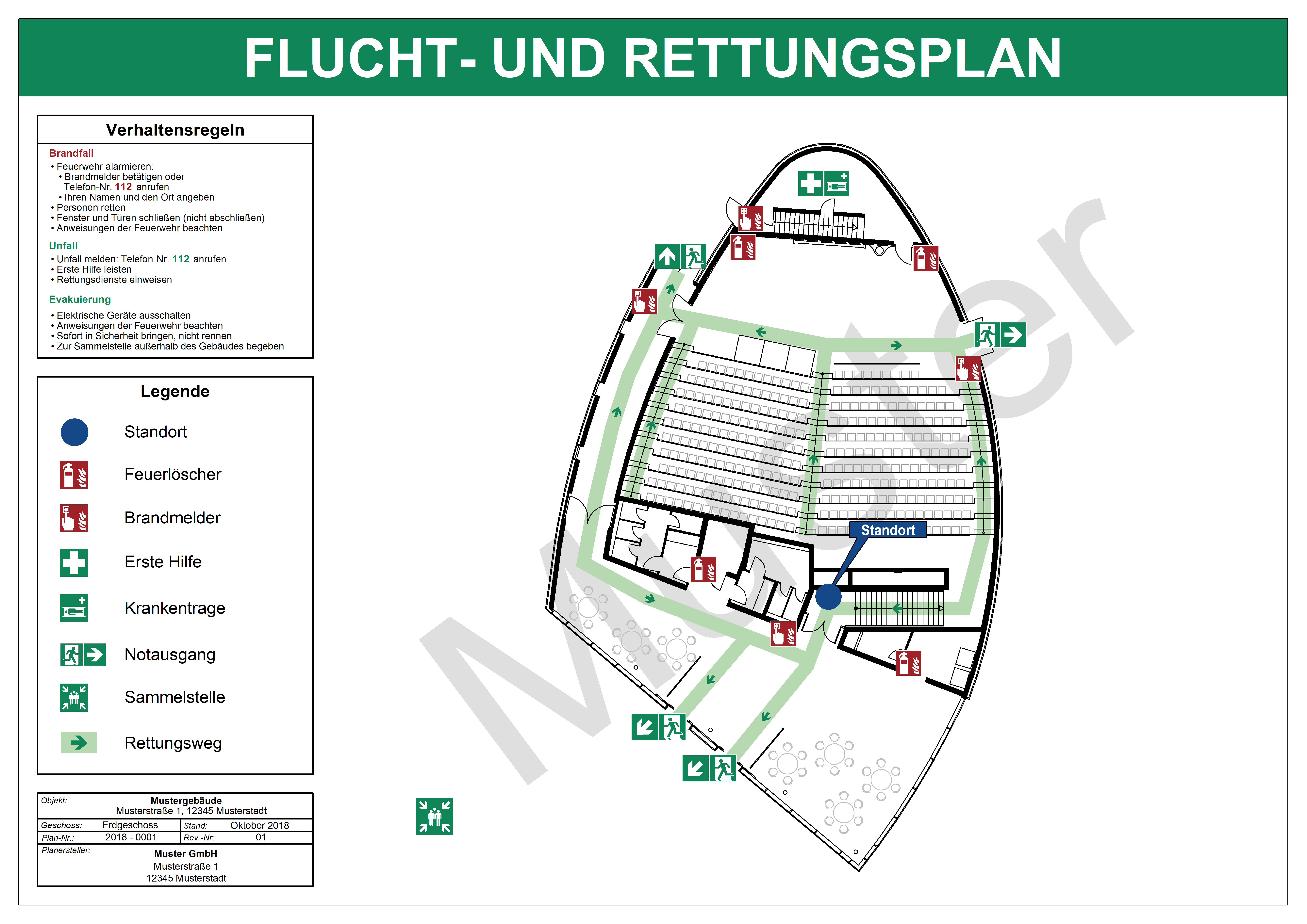 This is a emergency exit plan which was created specially for wikipedia. The building is fictional.